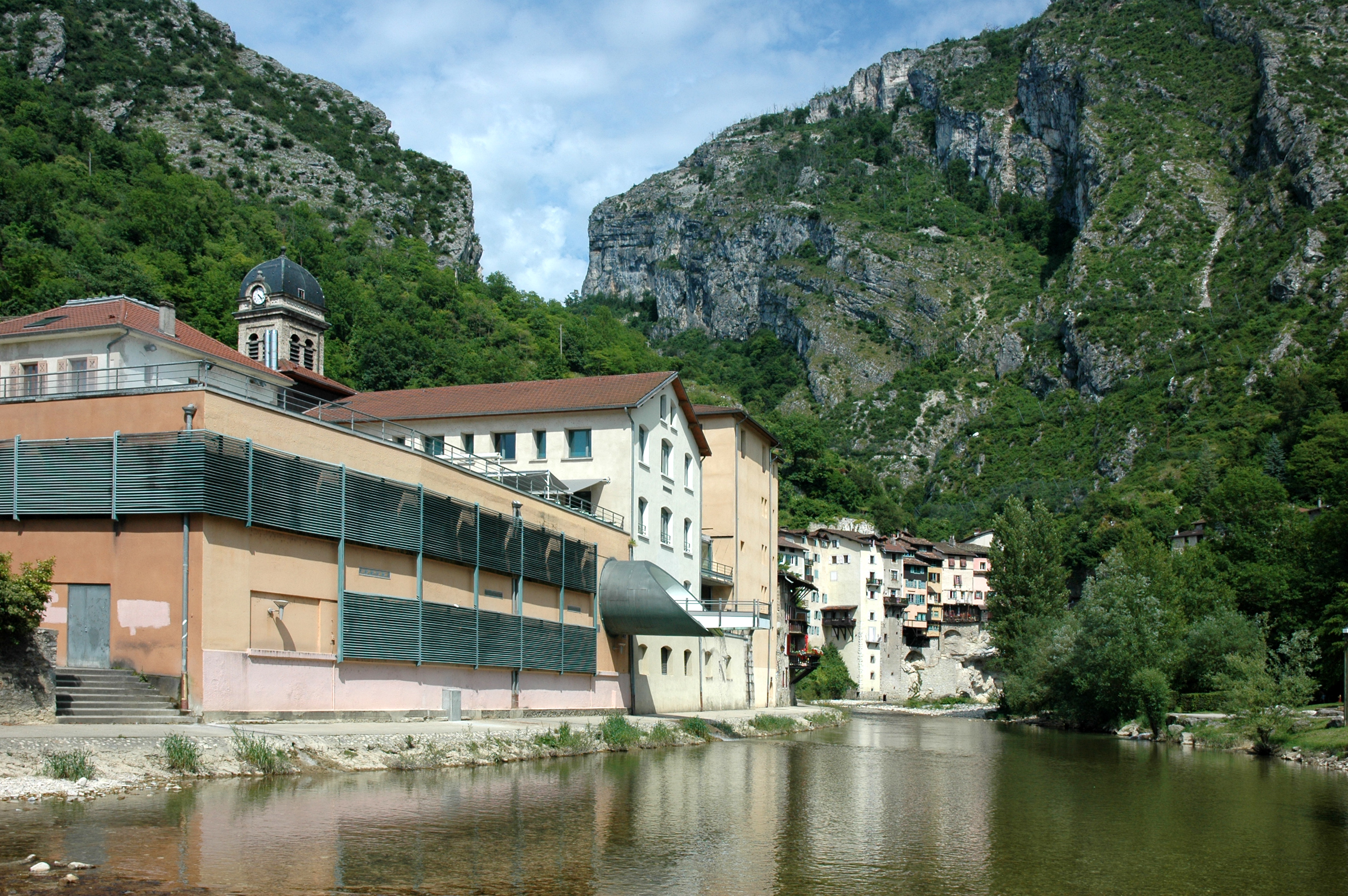 Pont-en-Royans in the département Isère, France